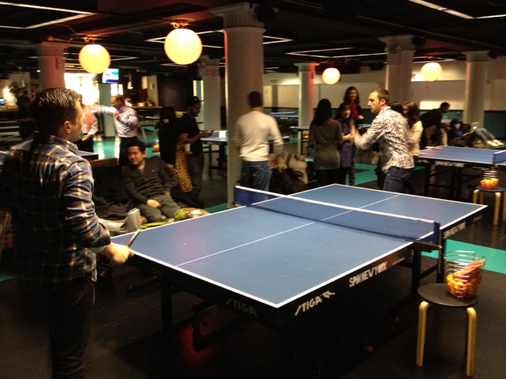 Interior of of SPiN New York, a table tennis restaurant and bar.